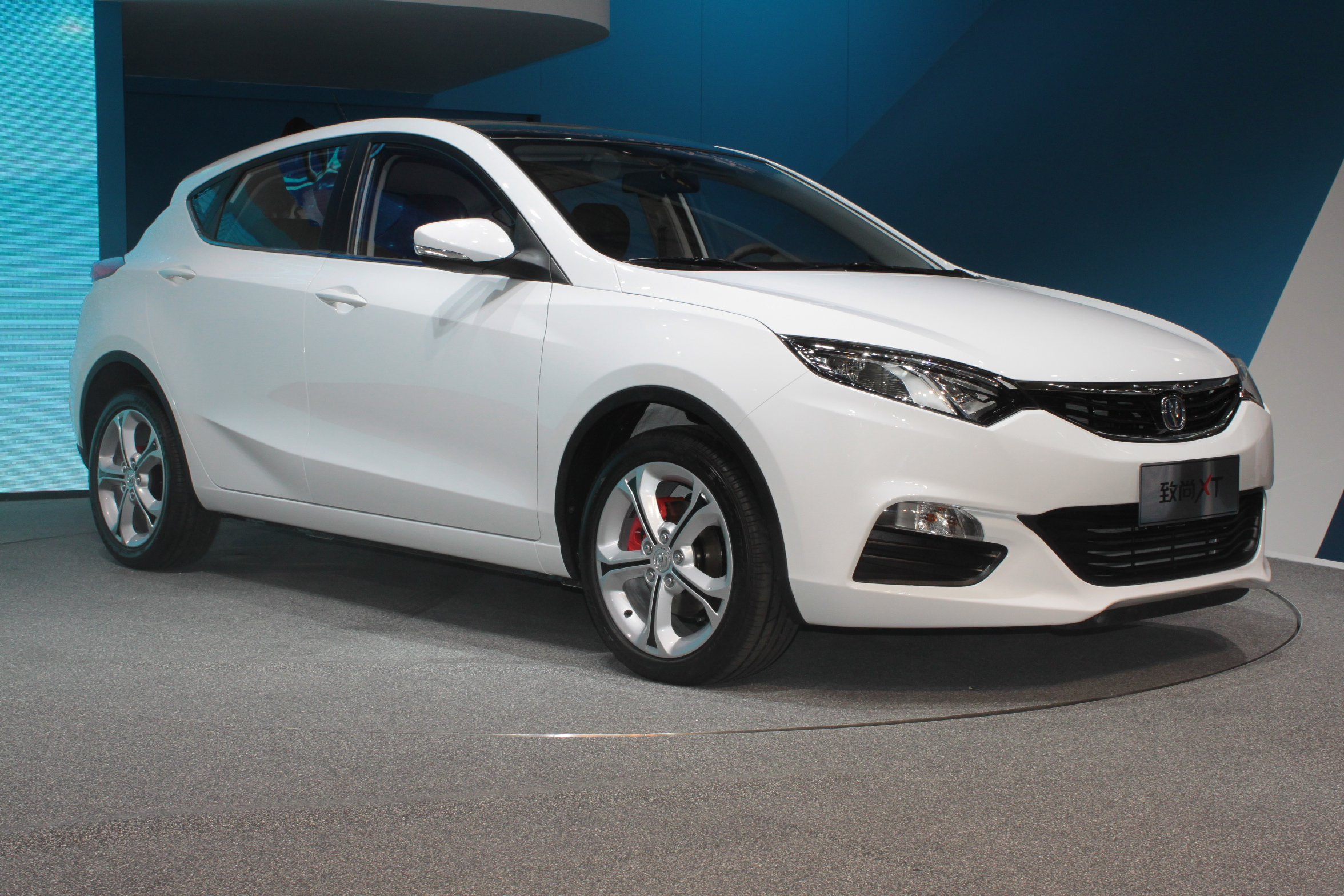 Chang'an Eado XT at Auto Shanghai 2013